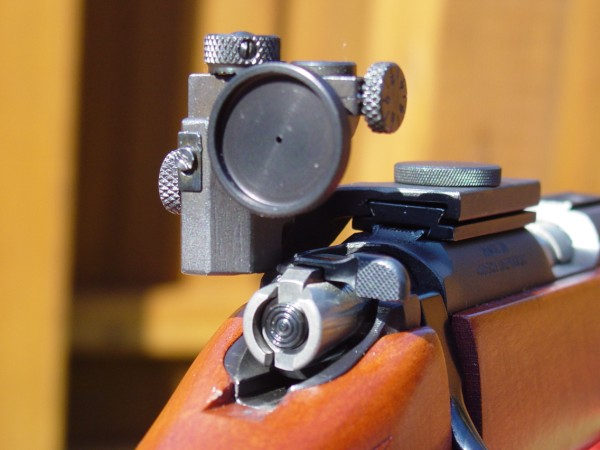 "Those are BRNO target sights on a CZ Super BRNO 2500." Given to me under GFDL by author User:Mr_Christopher